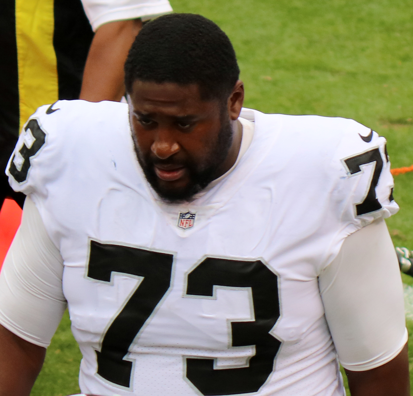 Marshall Newhouse, a player on the National Football League.